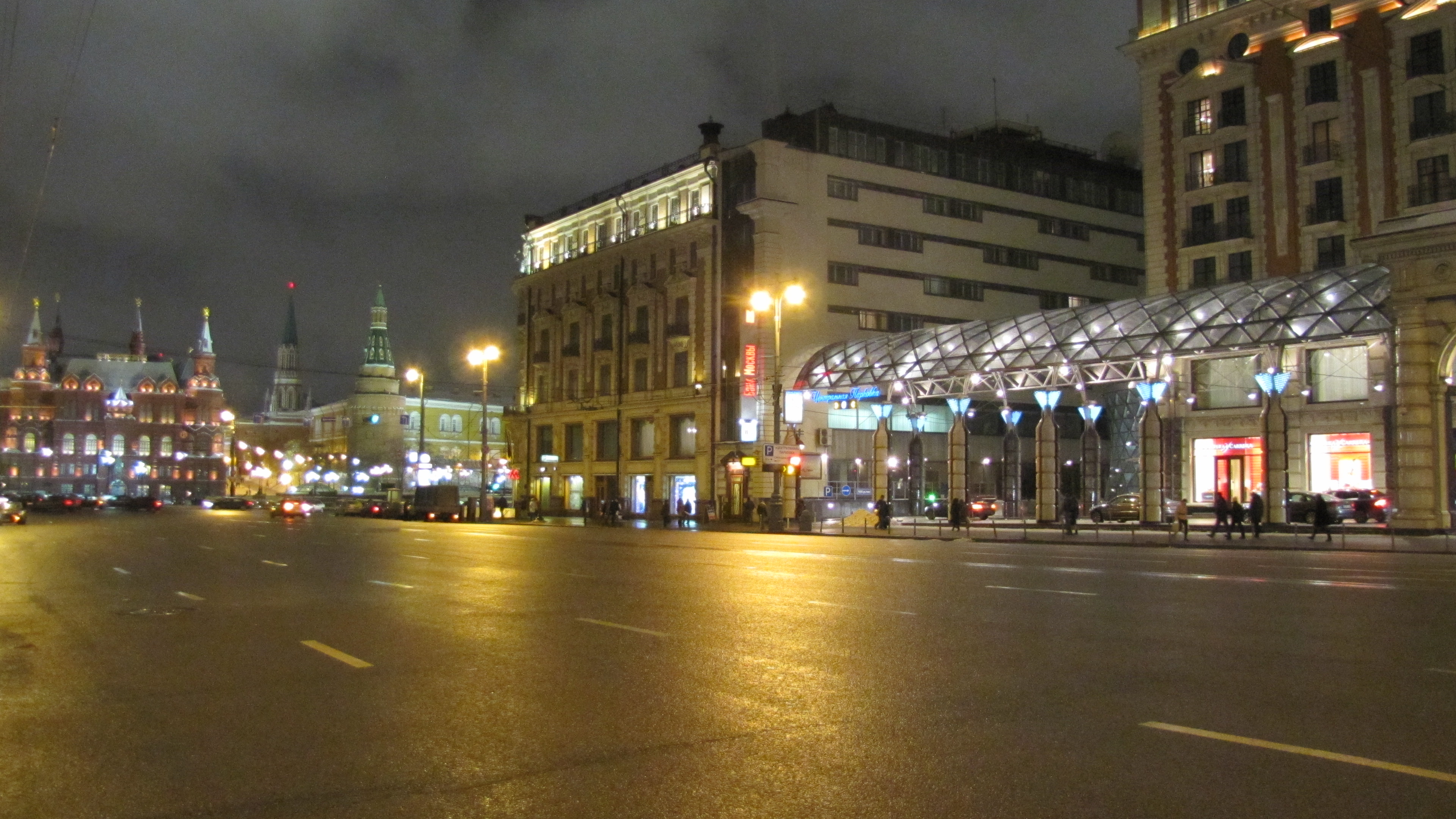 Tverskaya Street, Moscow.